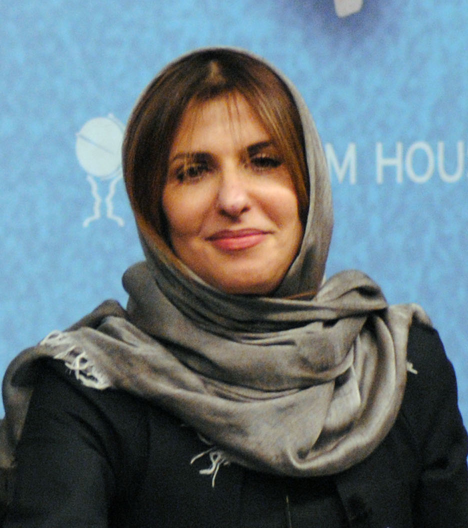 HRH Princess Basmah Bint Saud at the Chatham House event Women and Power in the Middle East, 30 April 2013 cht.hm/ZjDI9P